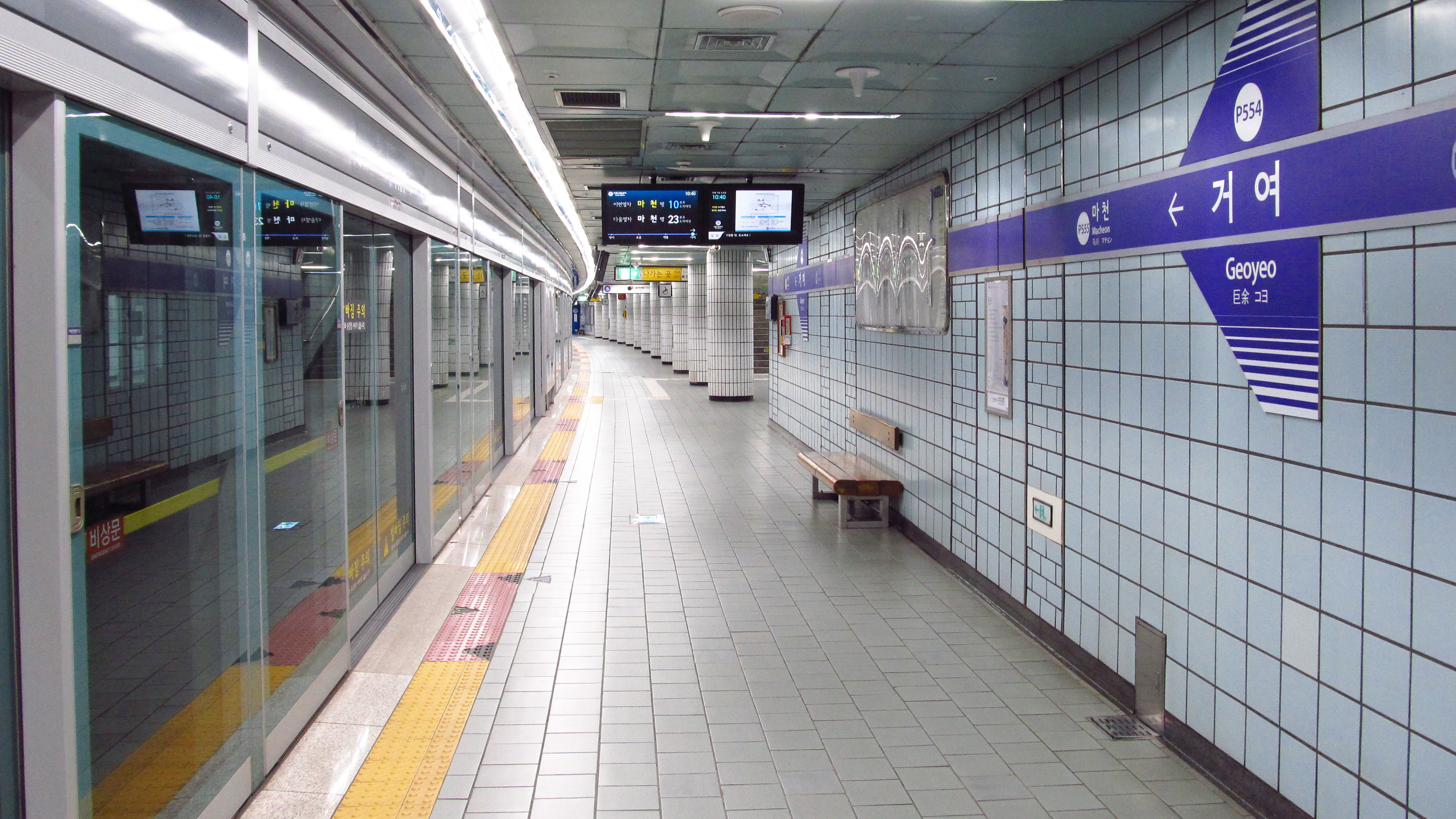 The platform at Geoyeo Station on Seoul Subway Line 5 in Songpa-gu, Seoul, Republic of Korea(South Korea)